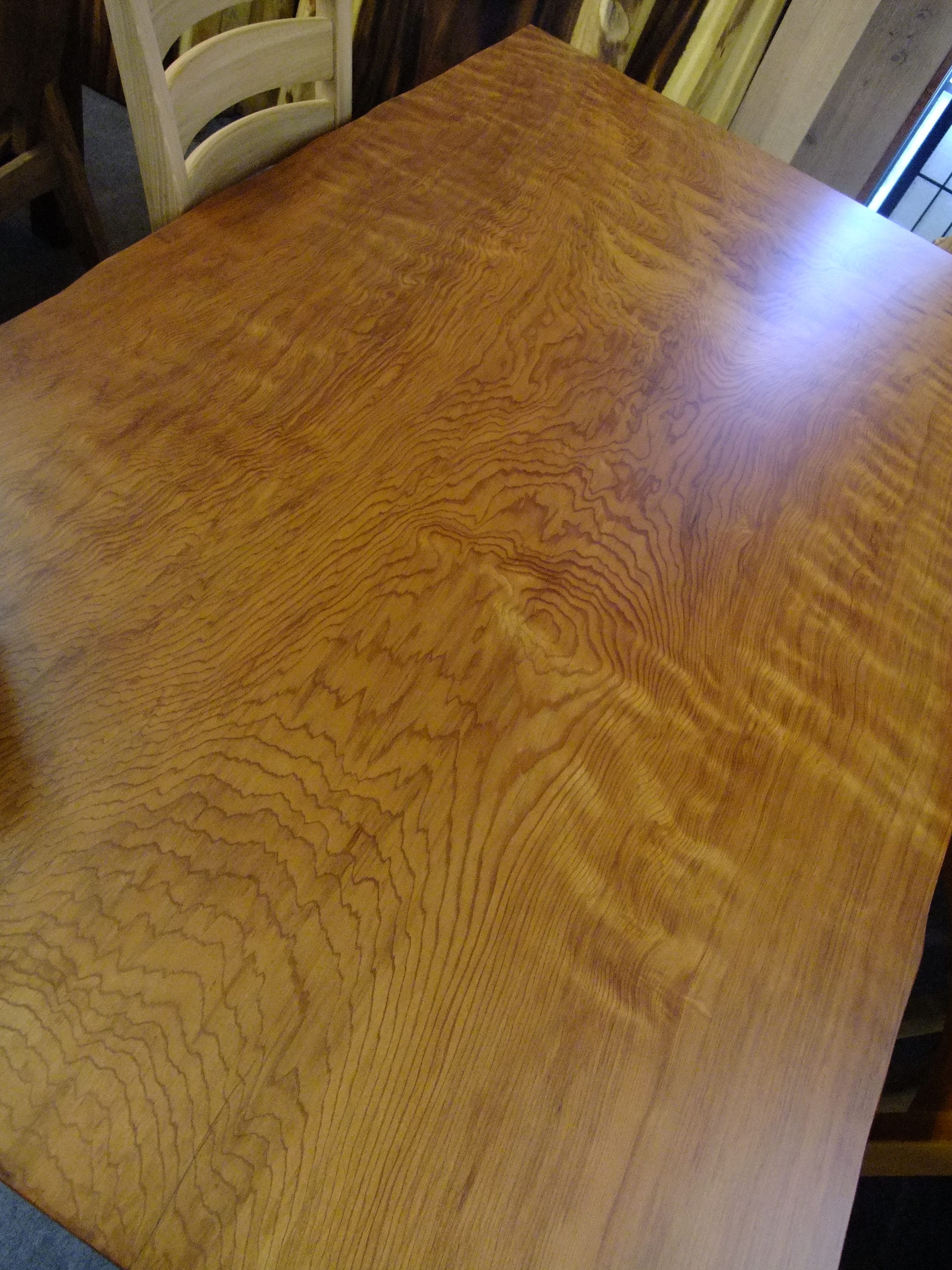 Cryptomeria japonica table